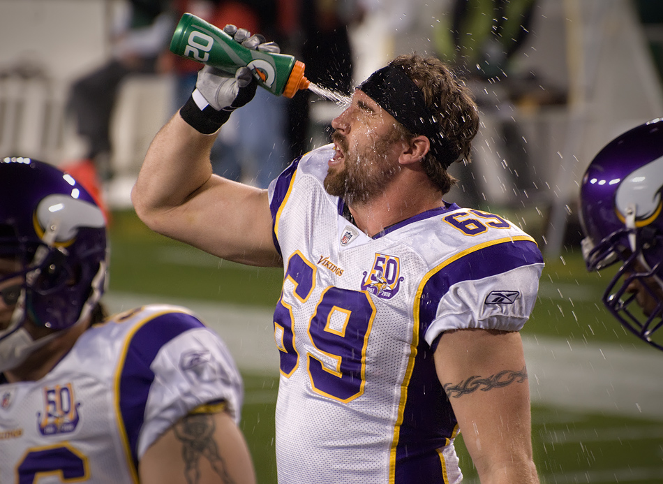 Lambeau Field, Green Bay, WI - October 24, 2010. Photo by Mike Morbeck.